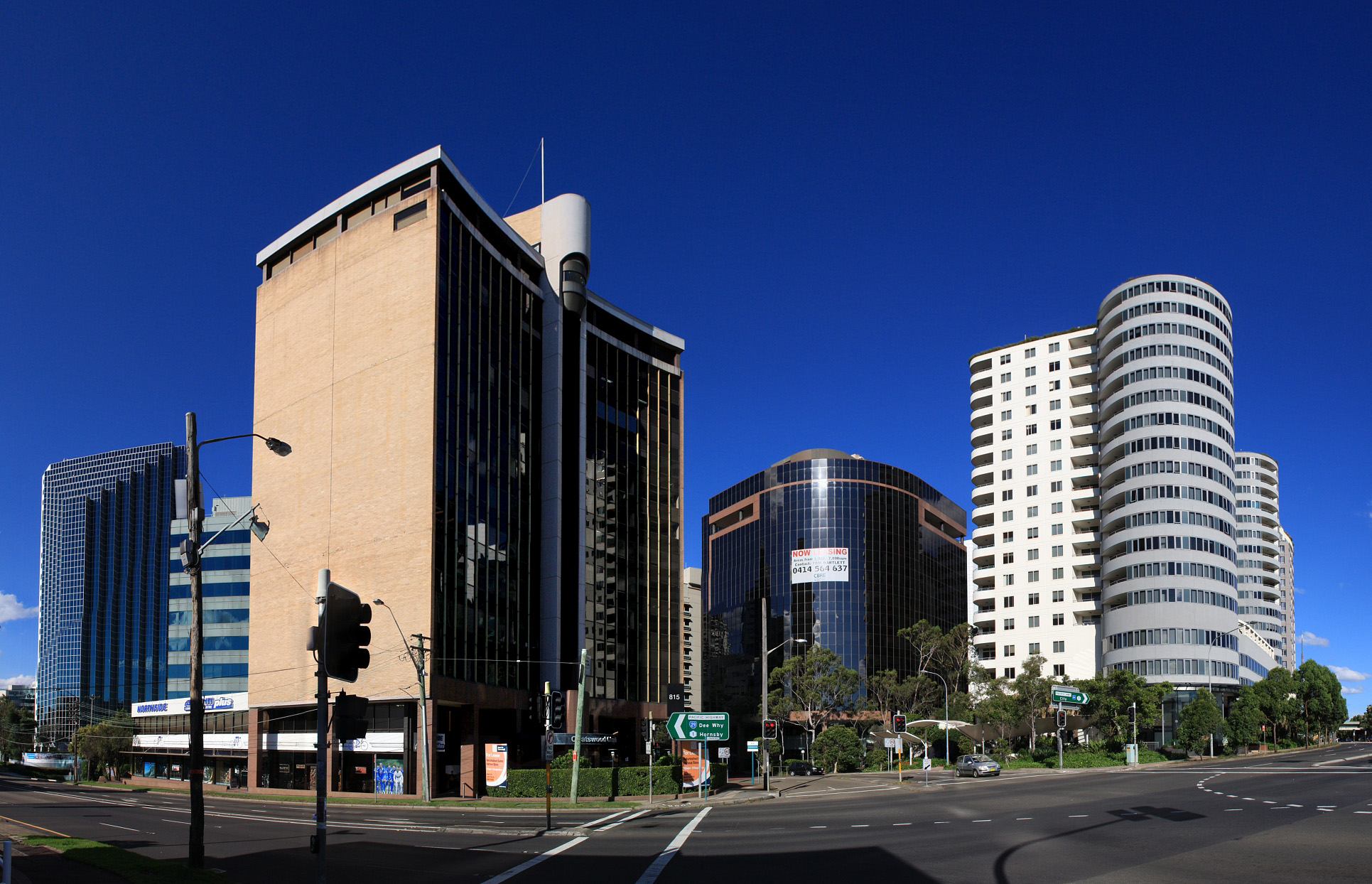 Chatswood, New South Wales on the Pacific Highway (Australia)